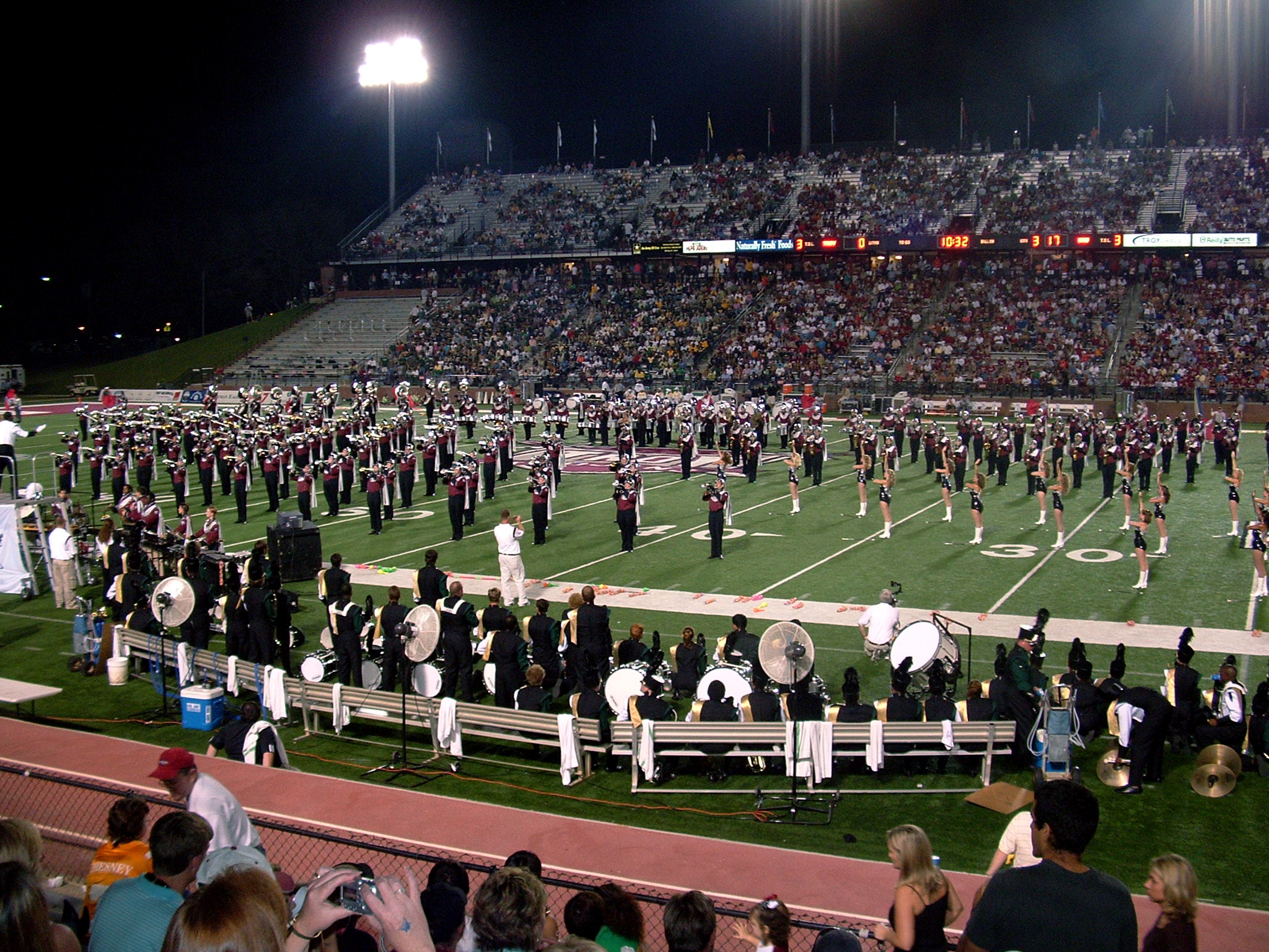 This is the other side of Movie Gallery Stadium and the "Sound of the South" Marching Band